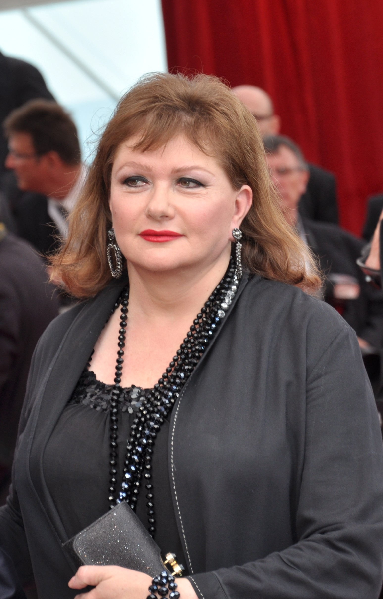 Catherine Jacob at the 2013 Monte-Carlo Television Festival.